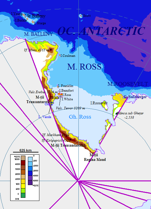 Physical map of Ross Dependency